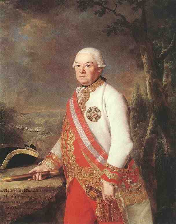 Portrait of Andreas Hadik (1710-1790), Hungarian nobleman and general